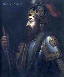 Portrait of king Afonso V of Portugal.